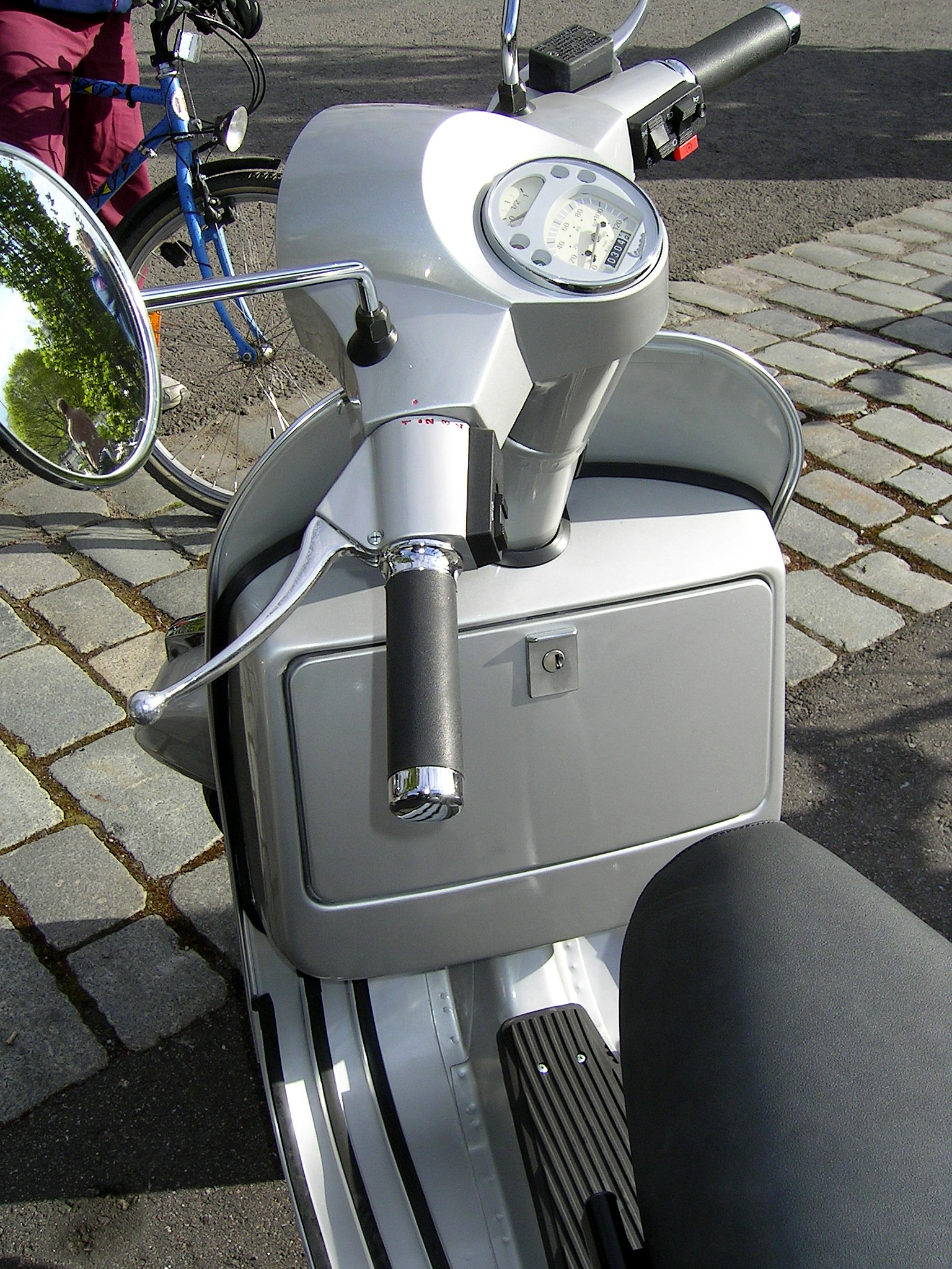 Vespa PX is equipped with a voluminous glove box